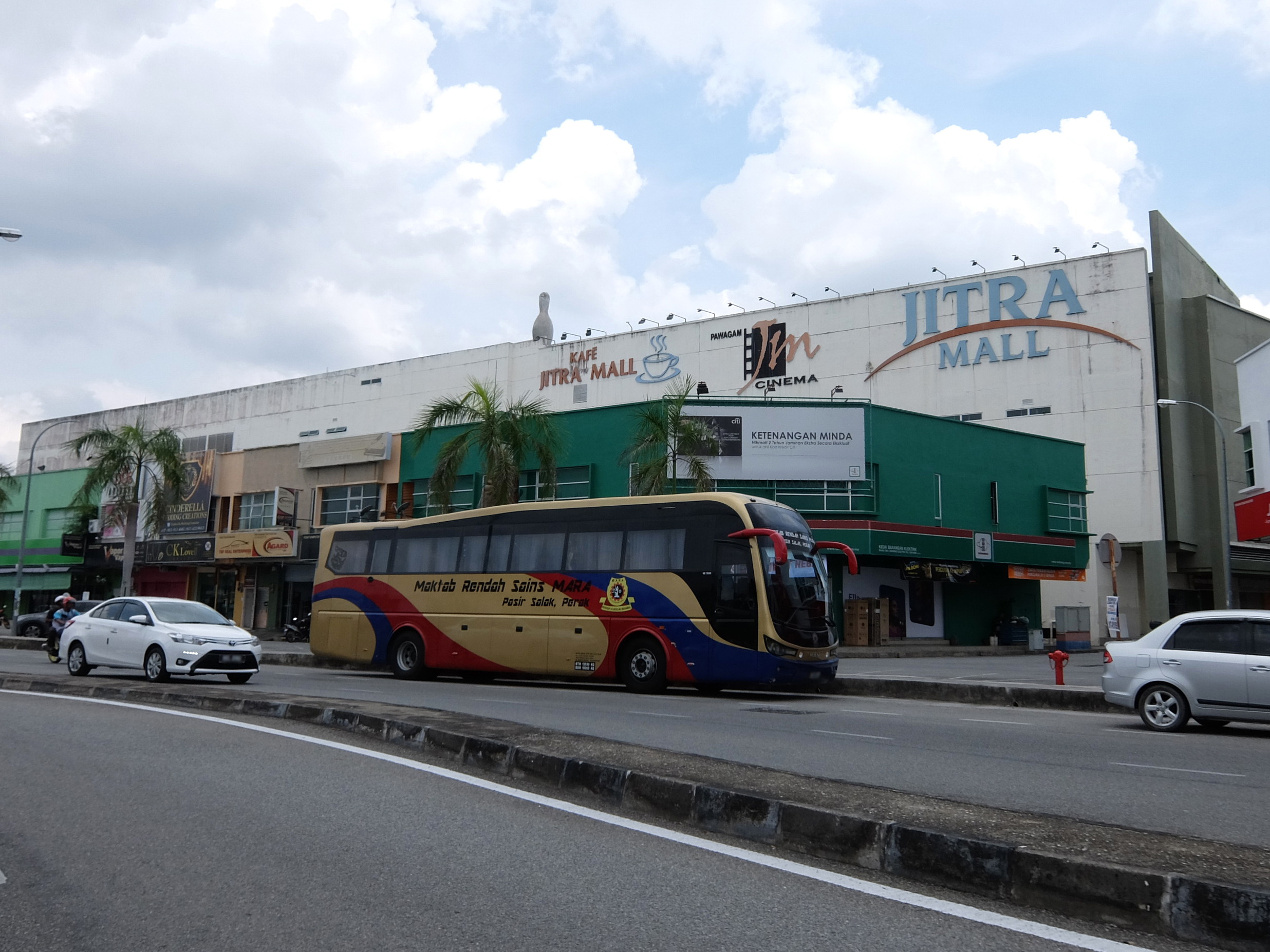 Jitra Mall, Jitra, Kubang Pasu, Kedah, Malaysia